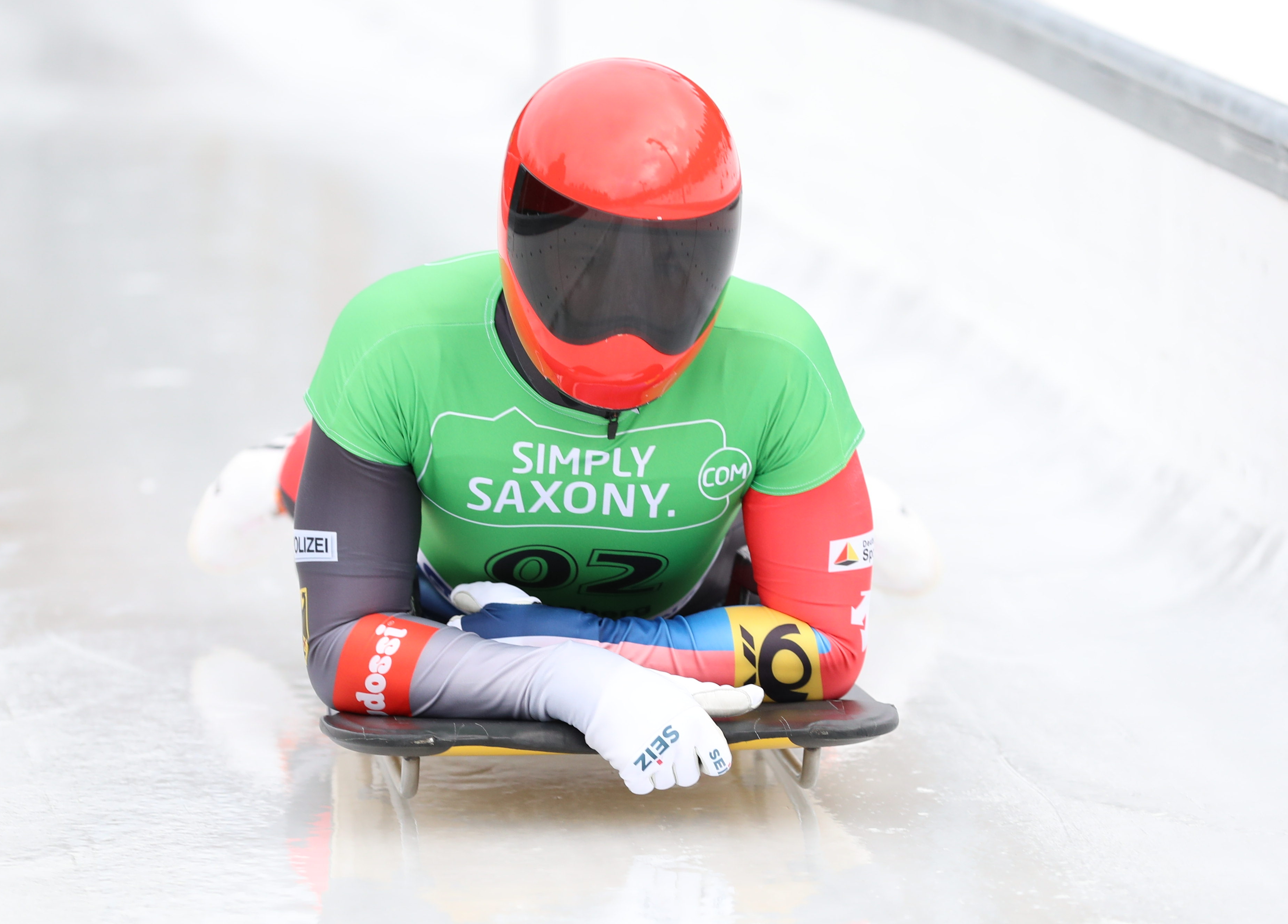 2nd run at the Men's competition at the German Skelton Championships 2018/19 in Altenberg